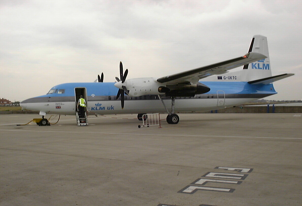 A KLMuk Fokker 50 G-UKTC @ London City airport